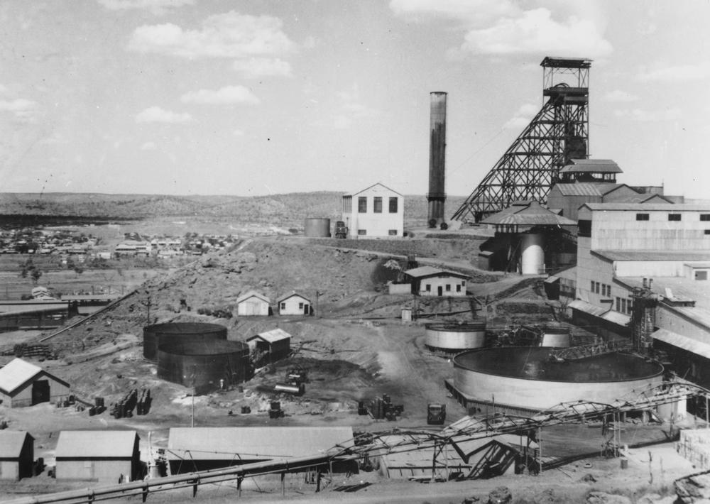 Mines in Mount Isa, 1954.